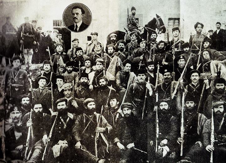 Kastoria united cheta of MOO, during Balkan Wars, front: Vasil Chekalarov, Hristo Silyanov, Ivan Popov and others